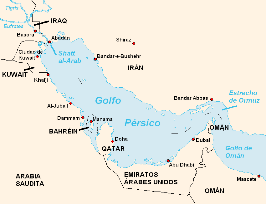 FrenchCarte dugolfe Persique(wp-FR),avec noms en espagnol.EnglishMap ofPersian Gulf(wp-EN),with Spanish names.